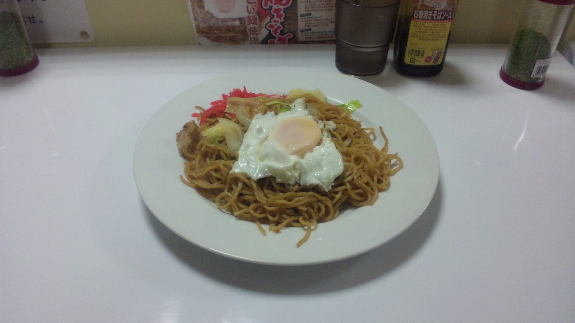 Ishinomaki-yakisoba, it took a picture at Meitetsu Department Store(event about Miyagi Prefecture) in January 22th, 2012.